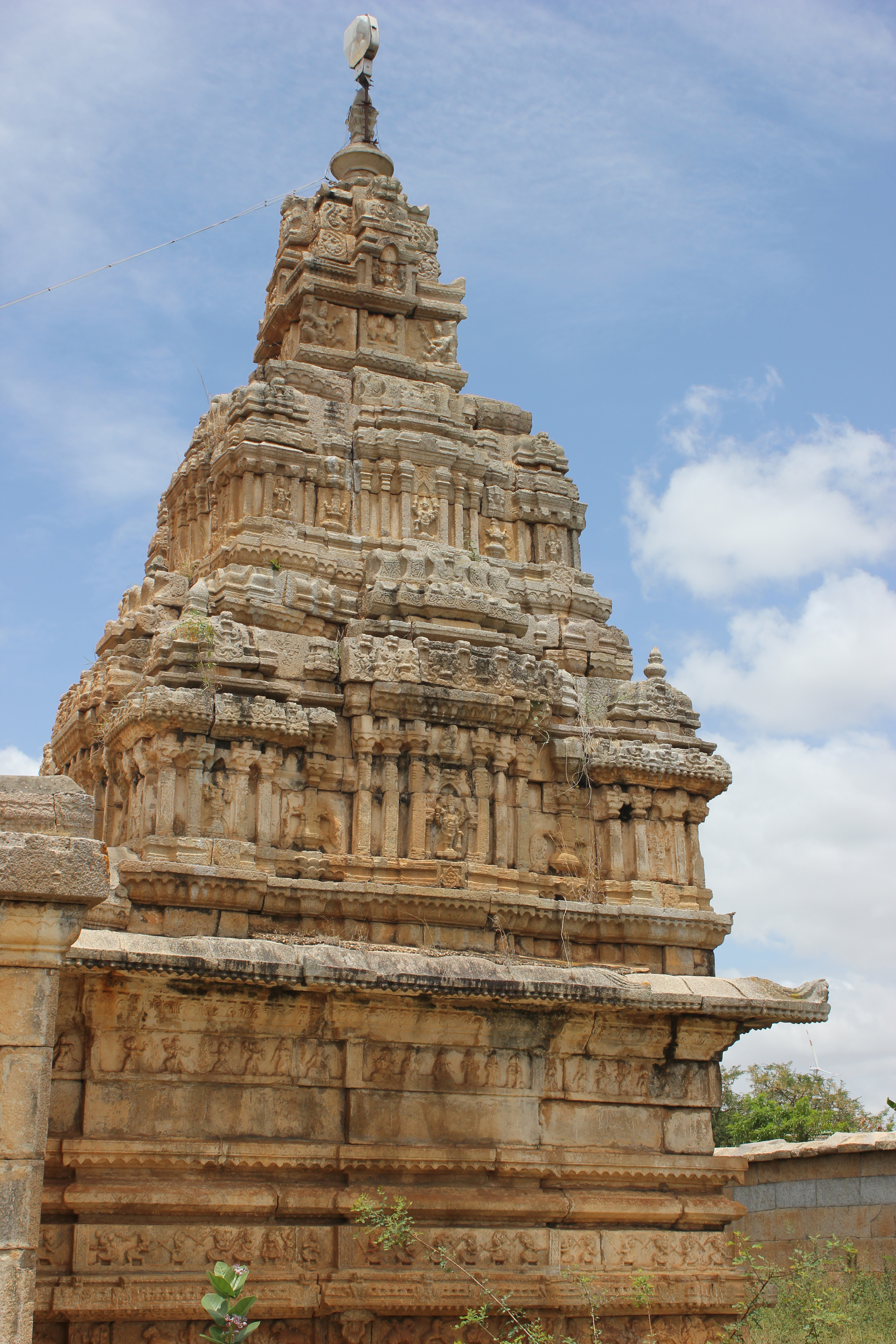 This photograph was taken by me at the Ranganatha Swamy temple in Neerthadi, Chitradurga district, Karnataka state, India. The temple belongs to the 14th-16th century Vijayanagara Empire period.